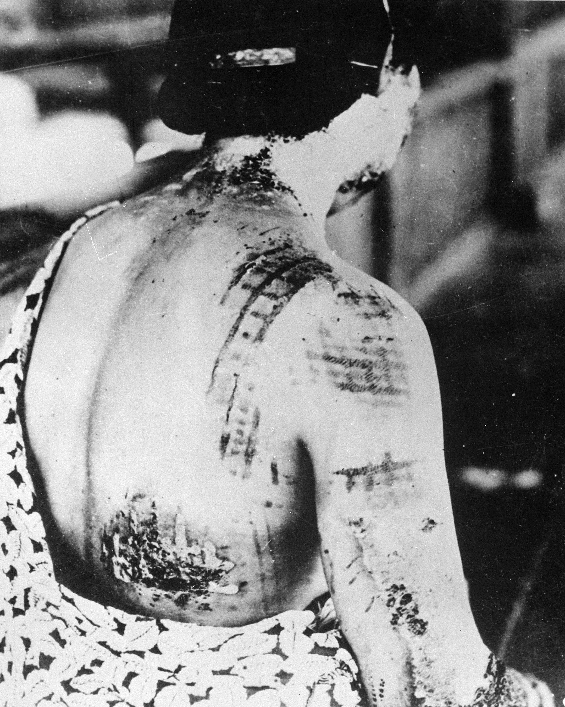 General notes: Use War and Conflict Number 1244 when ordering a reproduction or requesting information about this image.